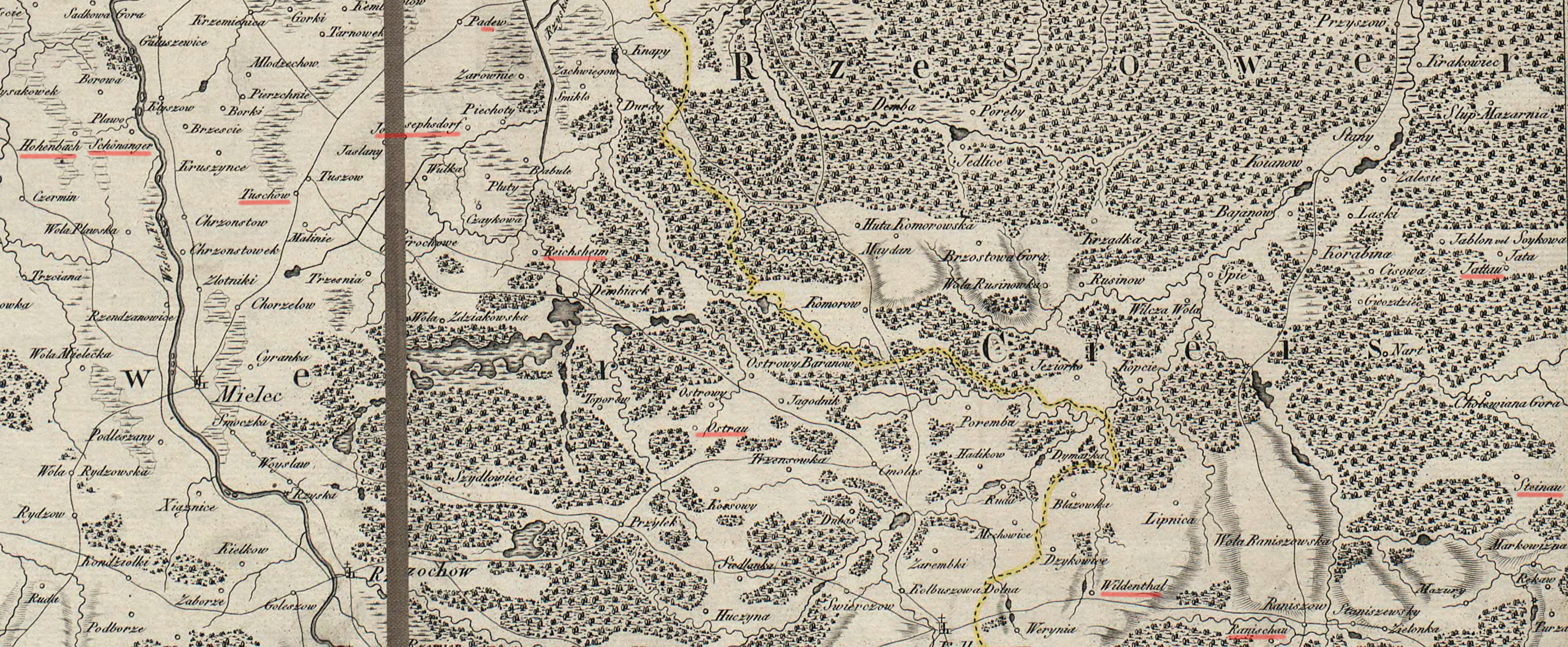 A map from 1797, josephinish colonies around Mielec